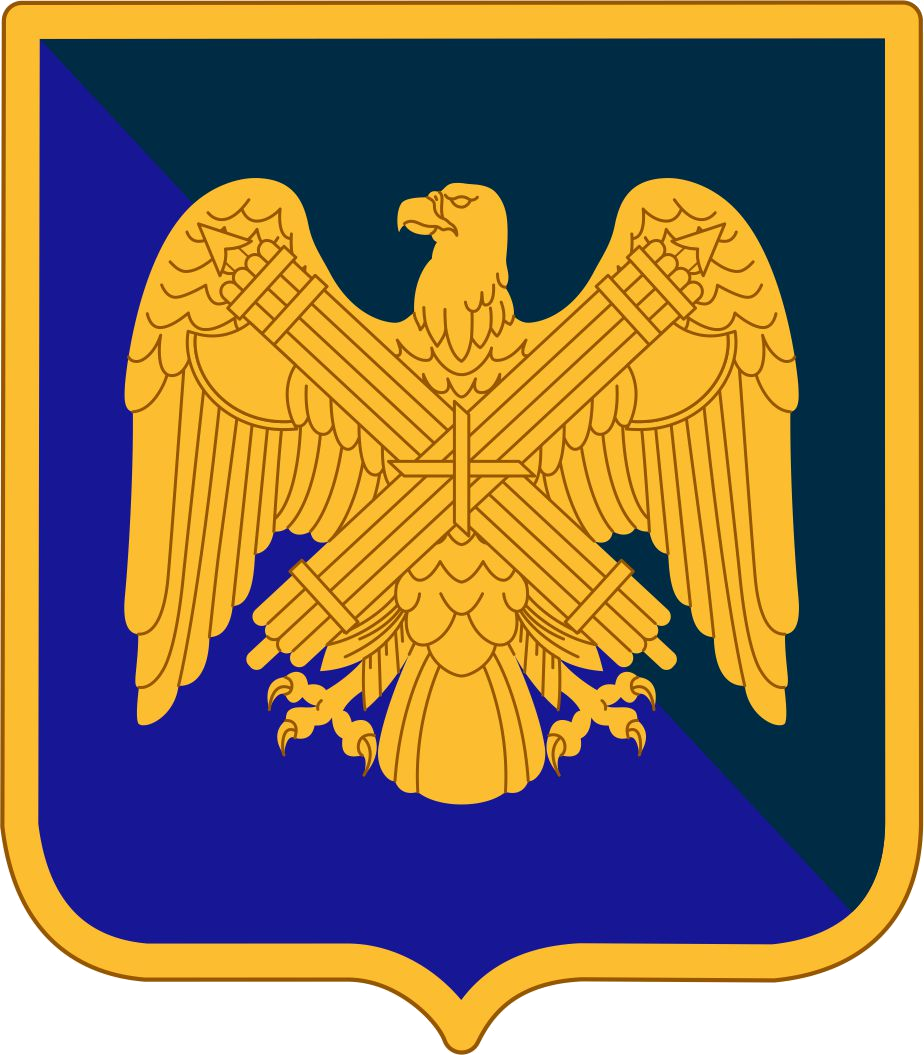 U.S. Department of Defense's National Guard Bureau shoulder sleeve insignia